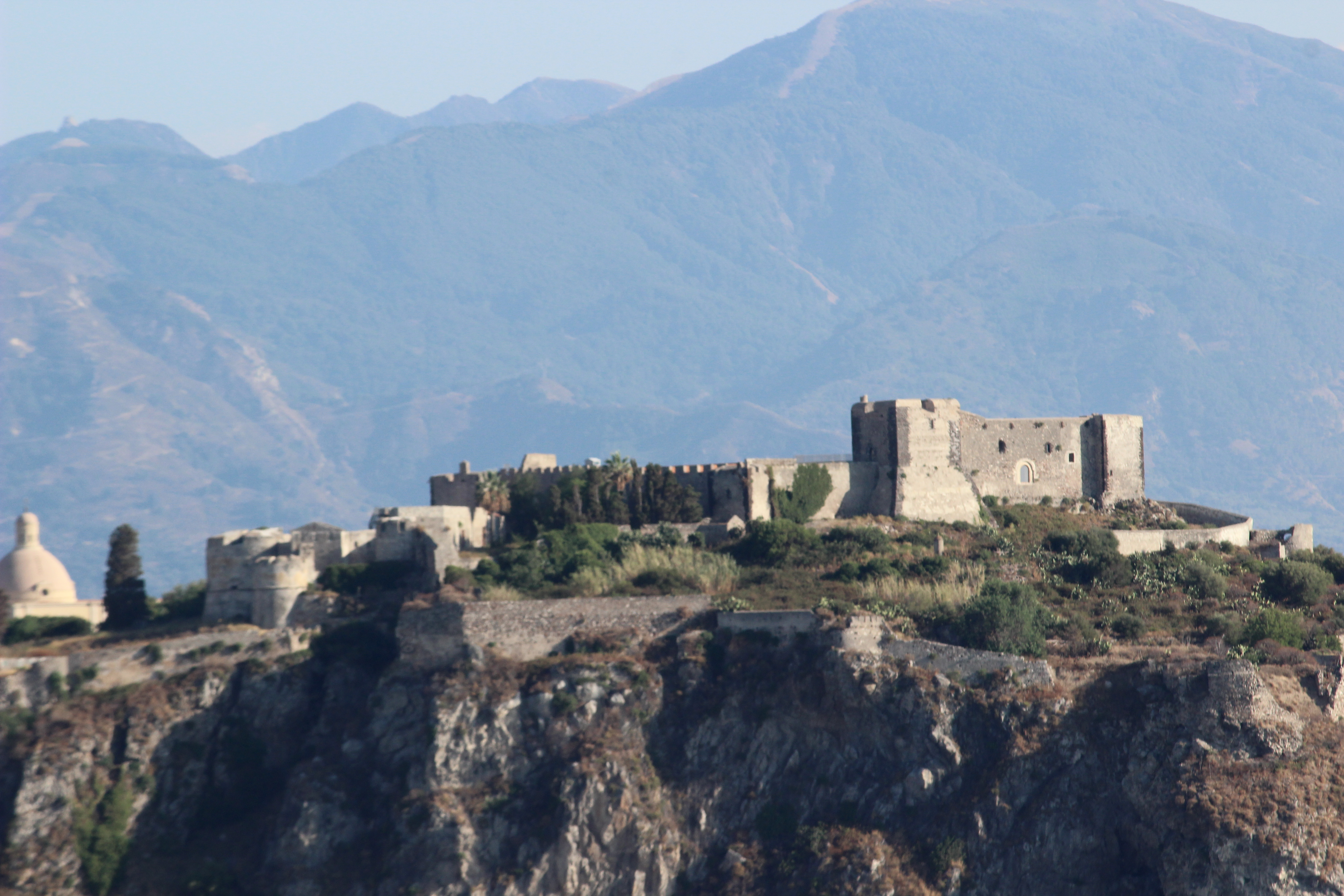 The castle of Milazzo